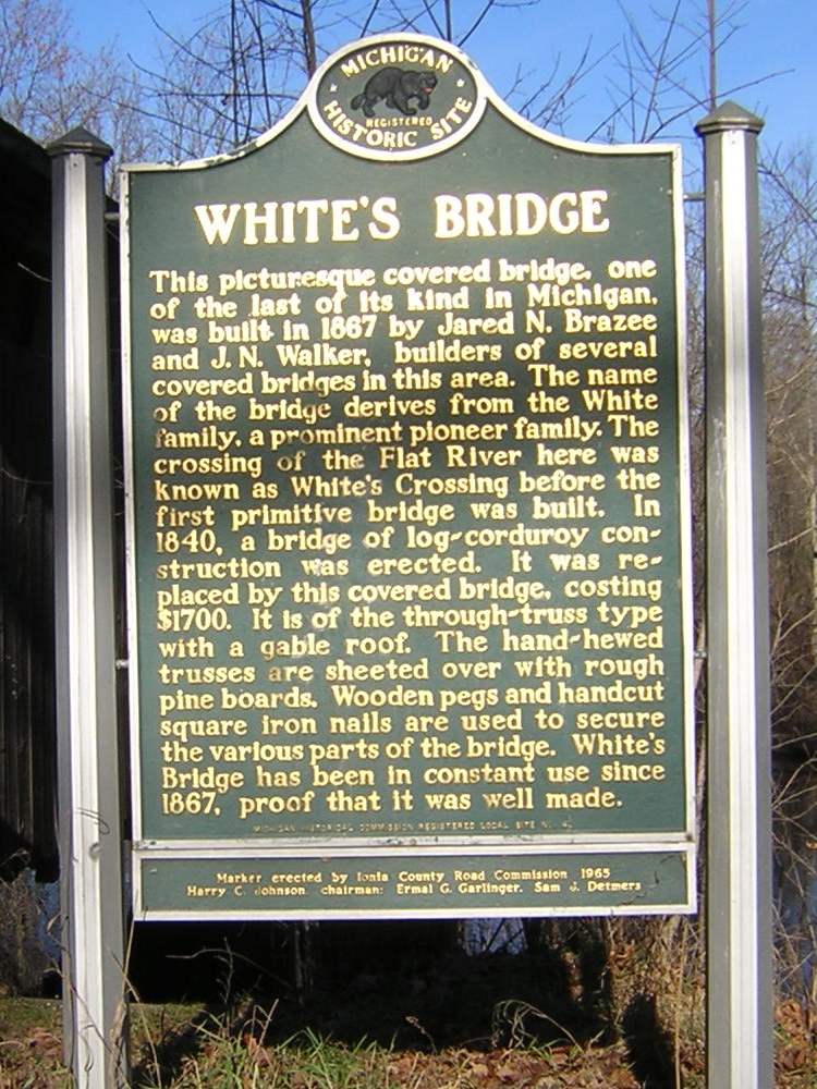 Historical marker at south end of Whites Bridge near Smyrna, Michigan, on the Flat River.